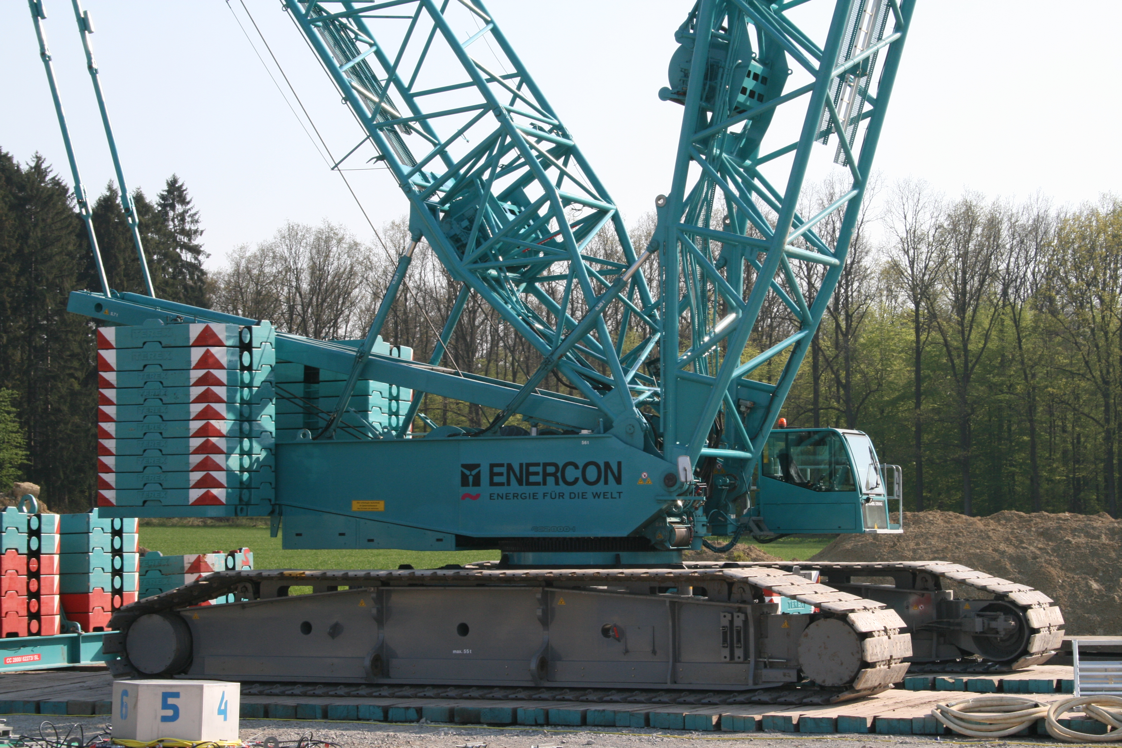 Terex Demag CC 2800-1 of Enercon